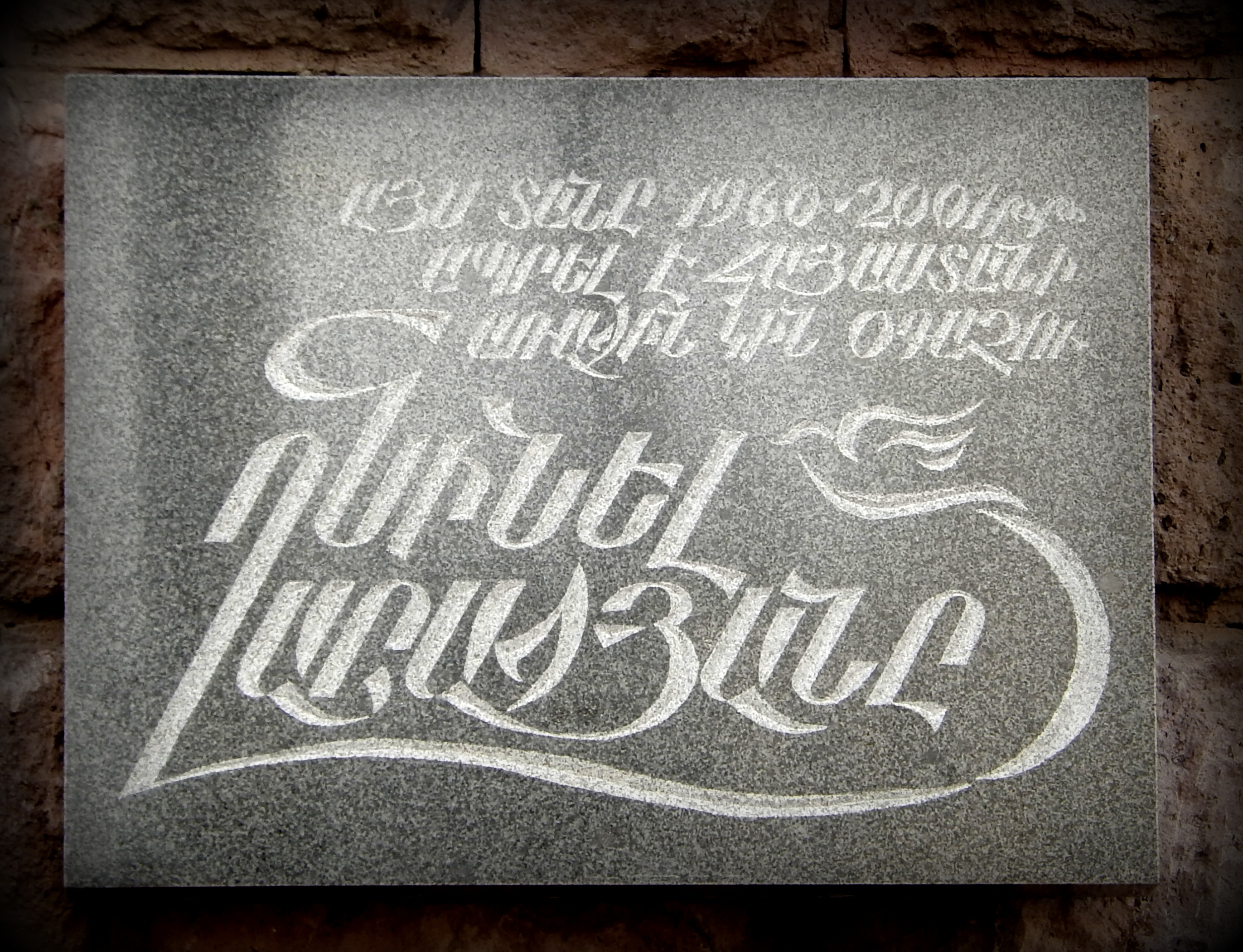 Plaque for Ninel Gharajian on Khorenarsi street, Yerevan